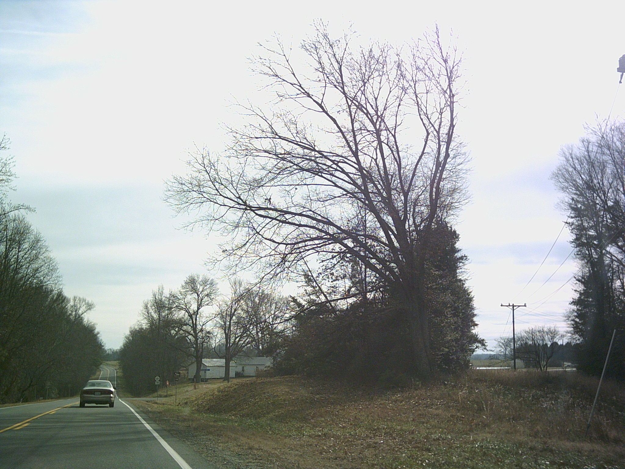 Image taken by me for Wikipedia